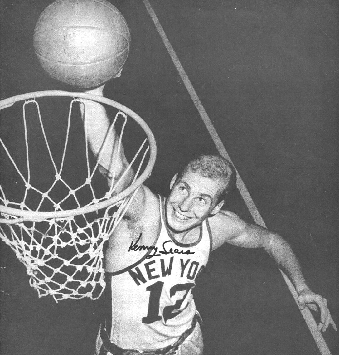 Professional basketball player Ken Sears